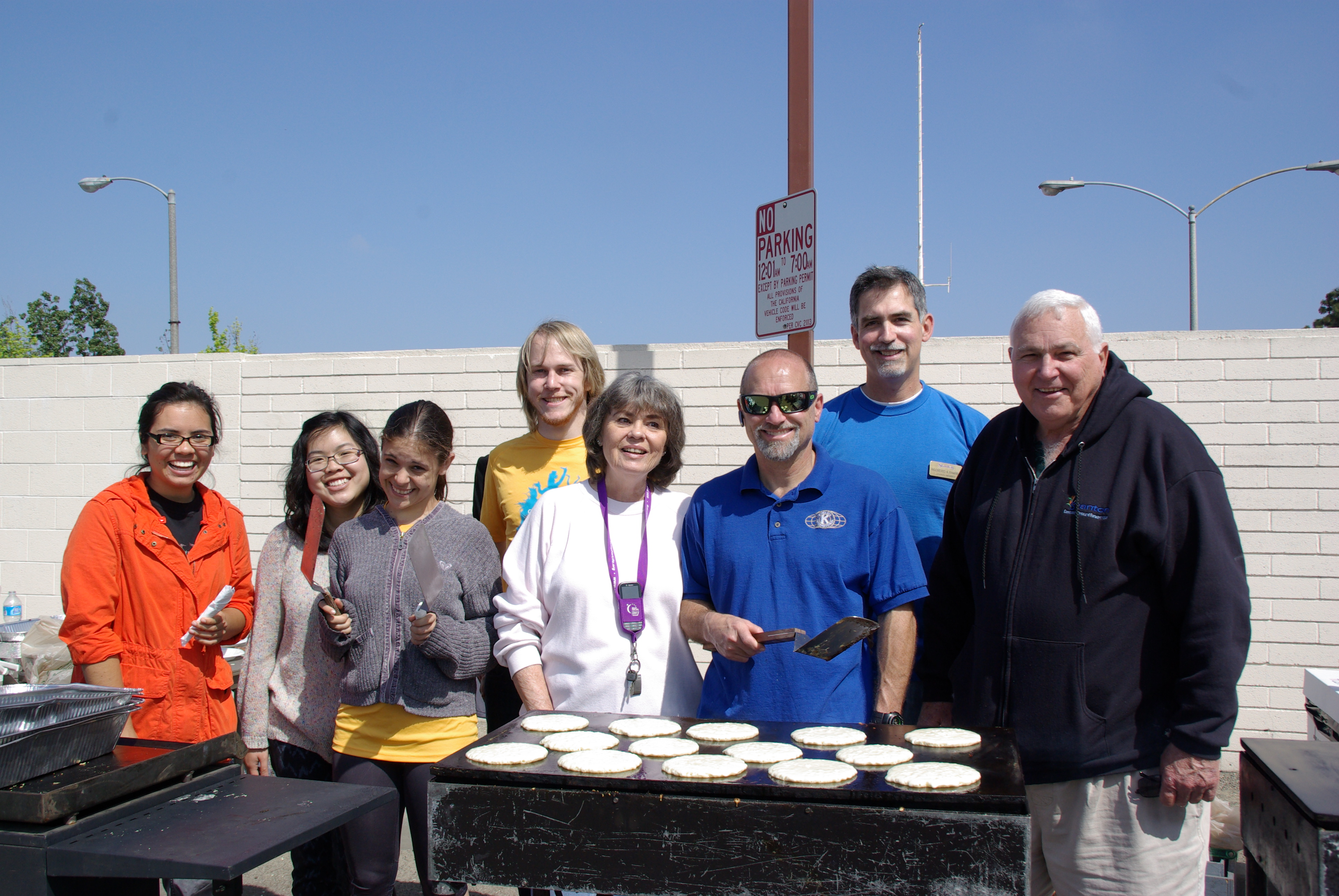 The city of Stanton estimates 4,000 people attend their annual Easter Egg Hunt and Pancake Breakfast, which was held Saturday, March 30, in the Stanton City Park where there were Easter egg hunts for the different age groups of children, a DJ, Goody walk, games, arts and crafts and face painting. The Kiwanis Club of Stanton sponsored the pancake breakfast. Pictured from left to right are volunteers Shelly Quan, Jennessa Howard and Monica Nguyen; John Warren, Steve Whirledge, who works in Stanton and lives in Anaheim; Nancy Heitman, Stanton Councilmember Rigoberto "Rigo" Ramirez and Stanton Mayor David Shawver. Photo Taken by Loreen Berlin (cc)